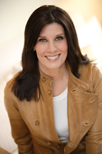 Photo of Kitty Pilgrim that was released by her photographer into the public domain--email confirming this has been sent.